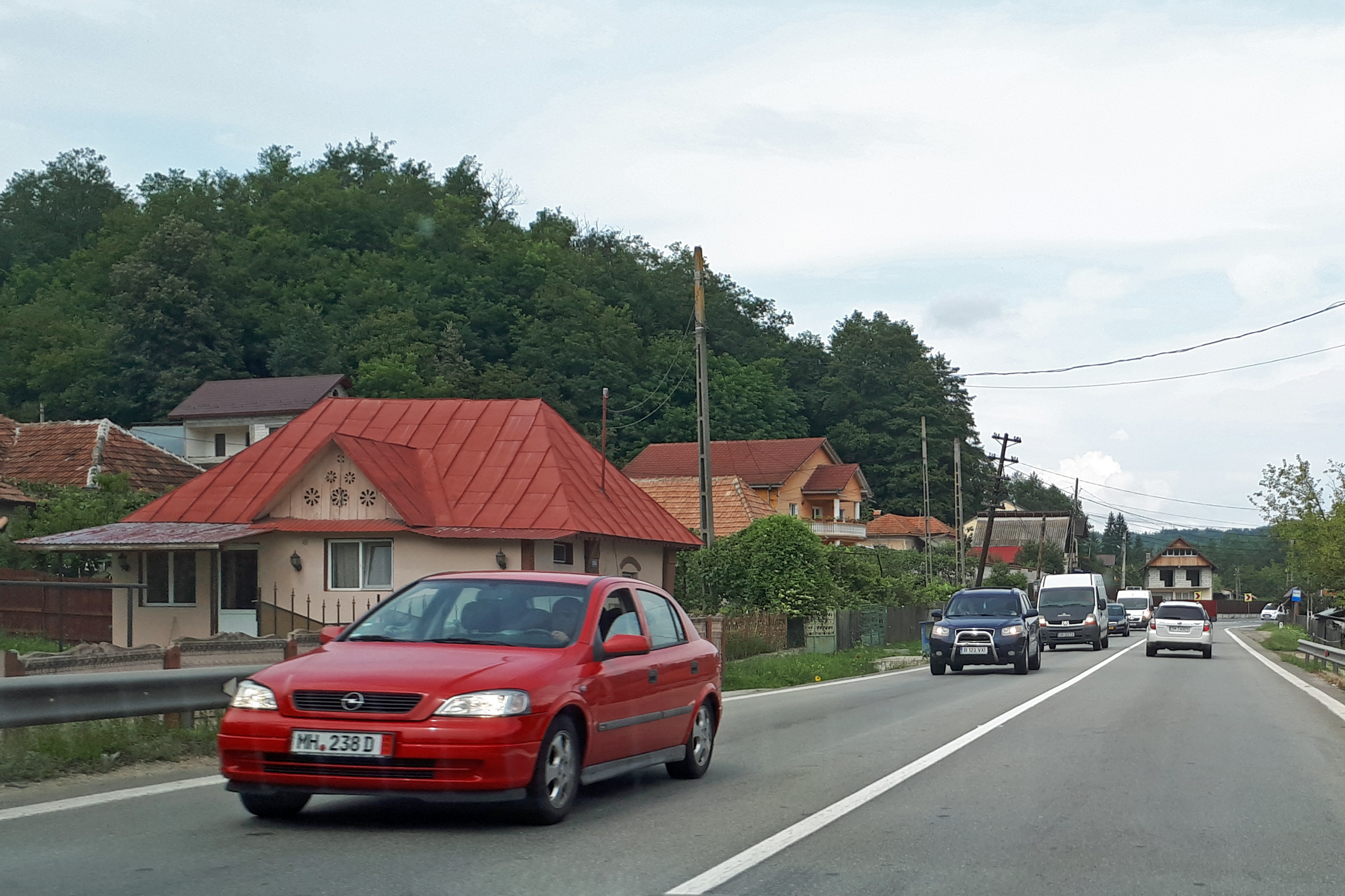 Milcoiu village, Romania